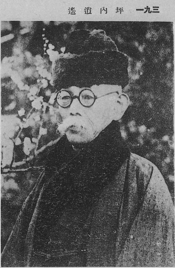 Portrait of Tsubouchi Shoyo (坪内逍遥, 1859 – 1935)